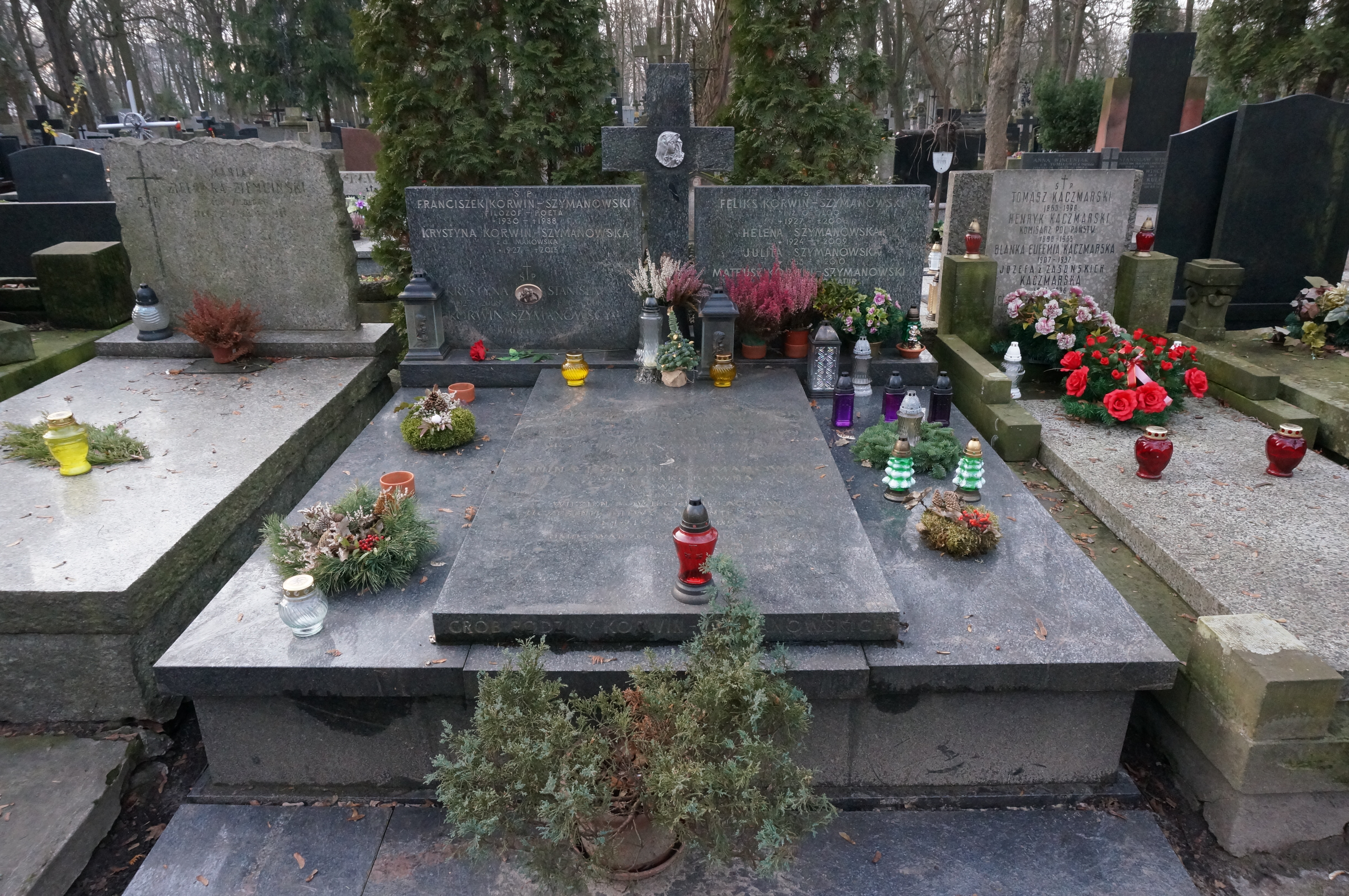 The grave of Stanisław Korwin-Szymanowski at the Powązki Cemetery (section 265, row 1, grave 5, 6)